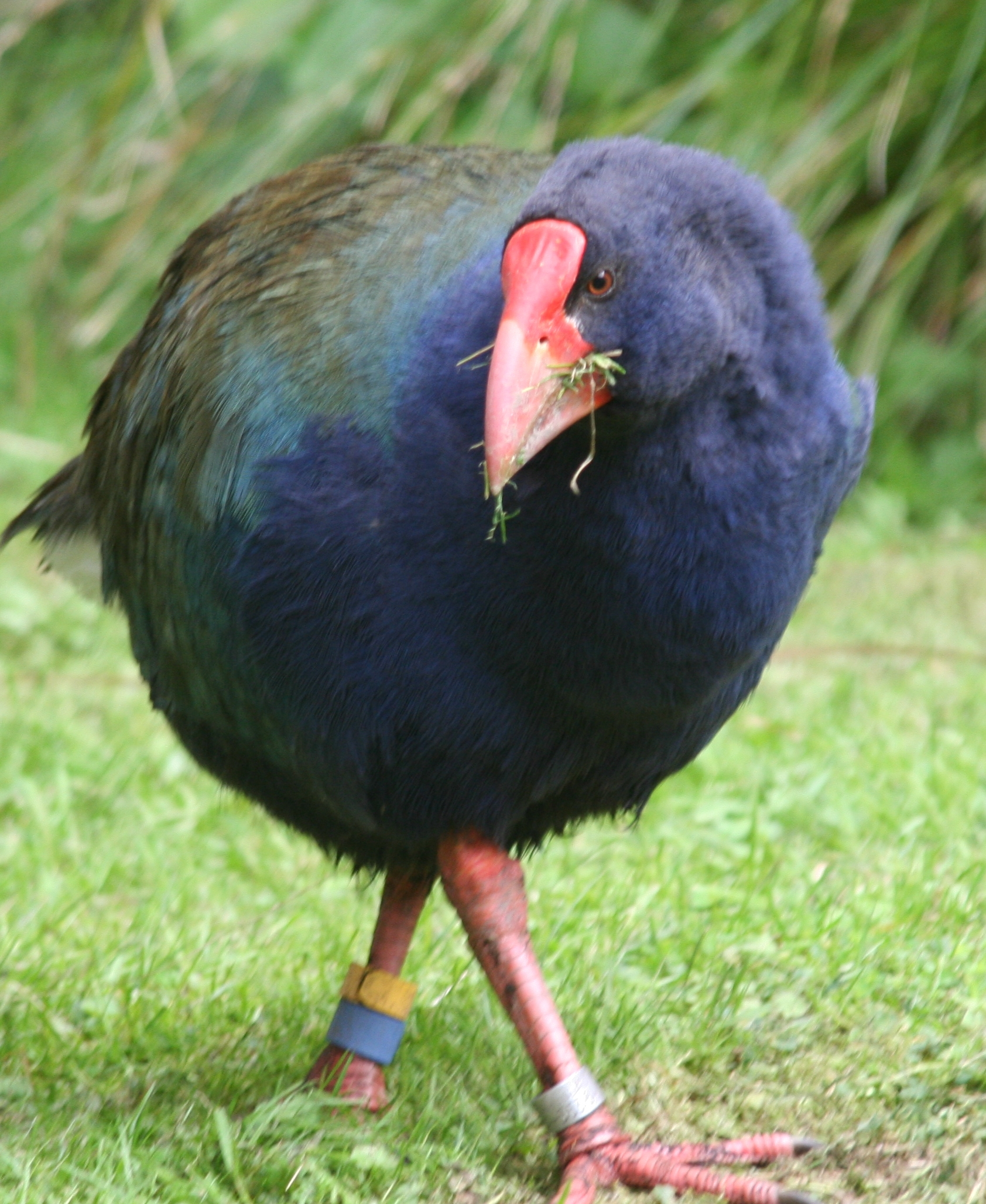 Female Takahe (known as Noa), Porphyrio hochstetteri Kapiti Island.